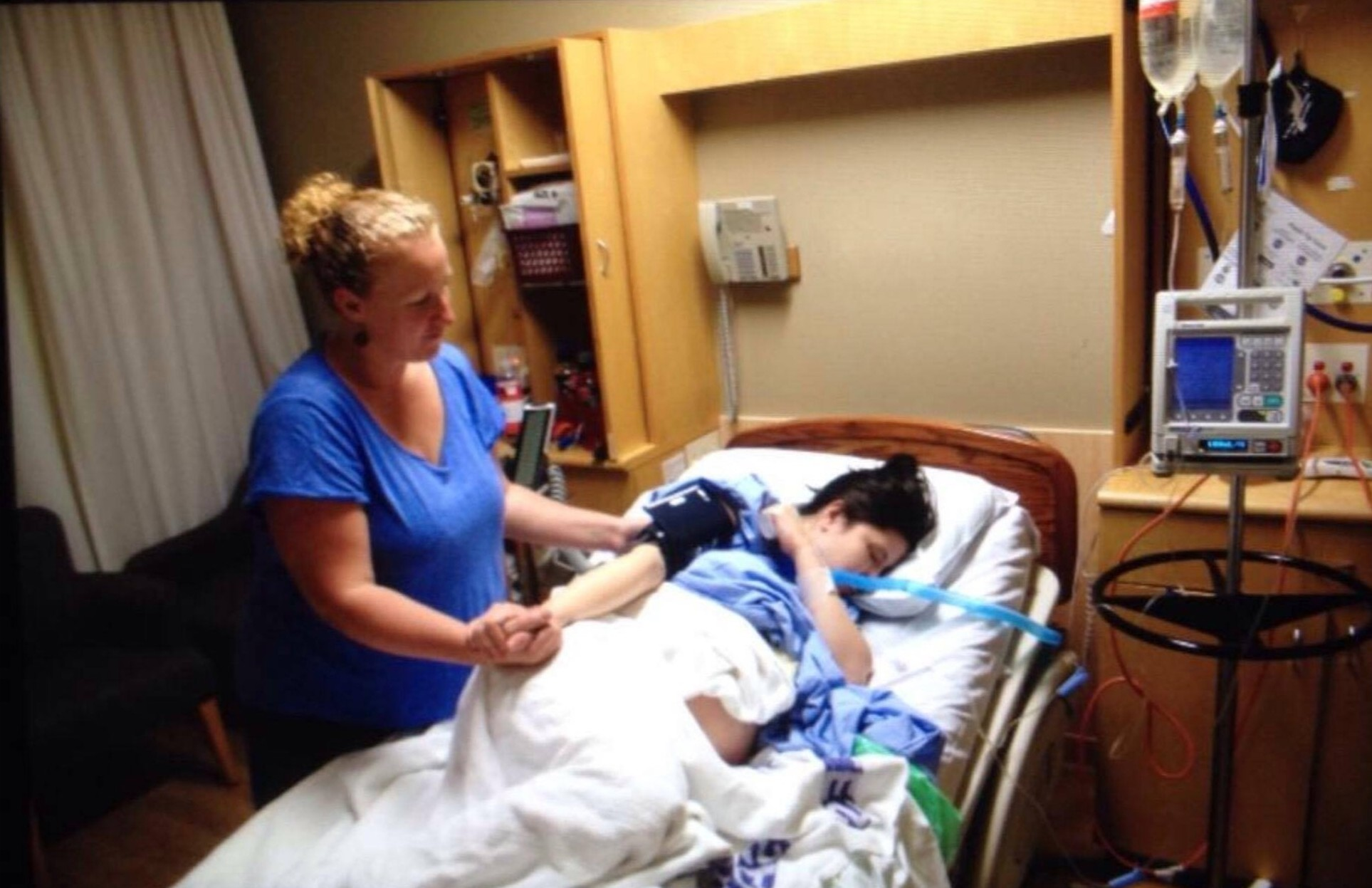 Doula (L) working with family during labor